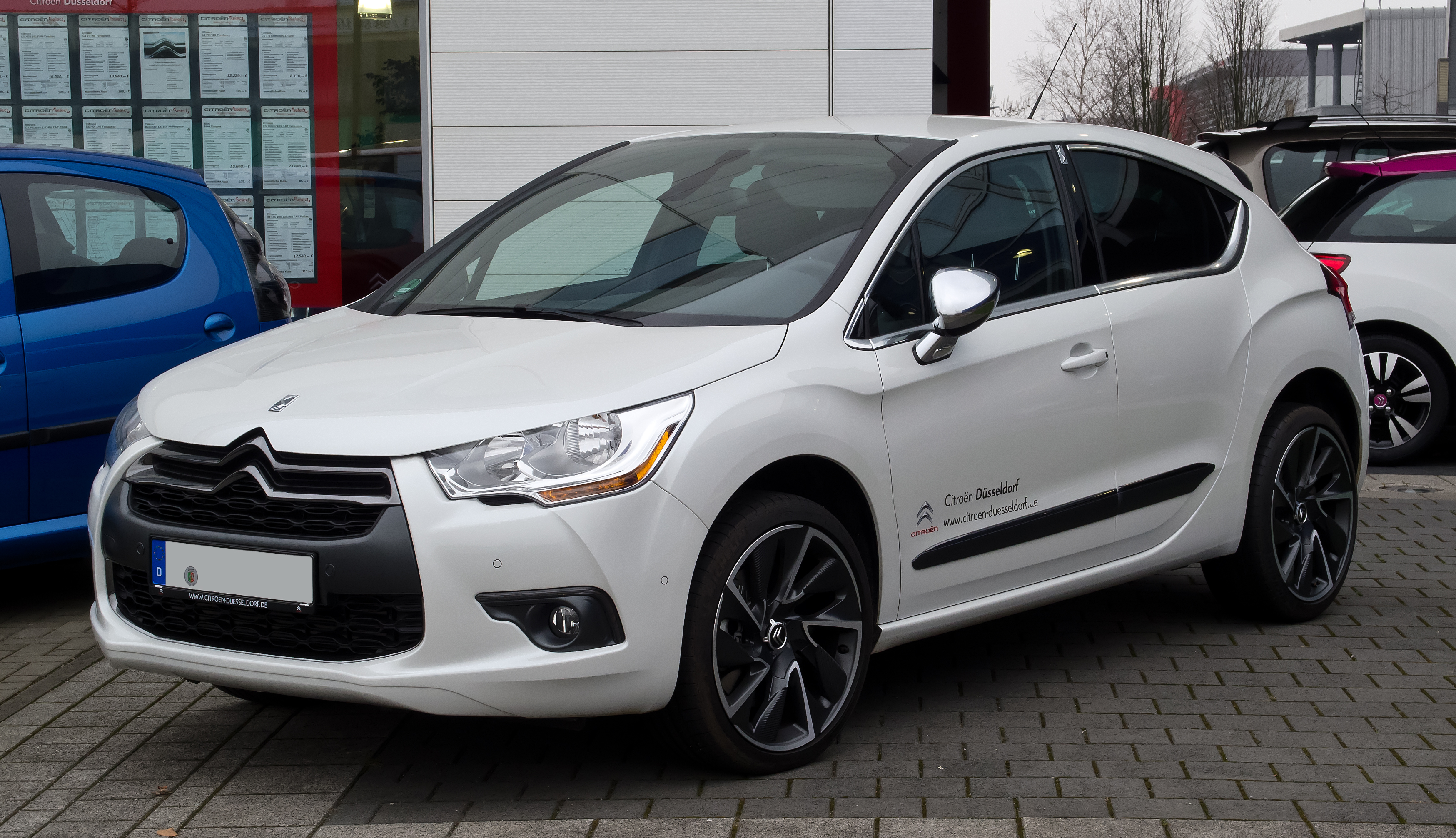 Citroën DS4 THP 200 SportChic